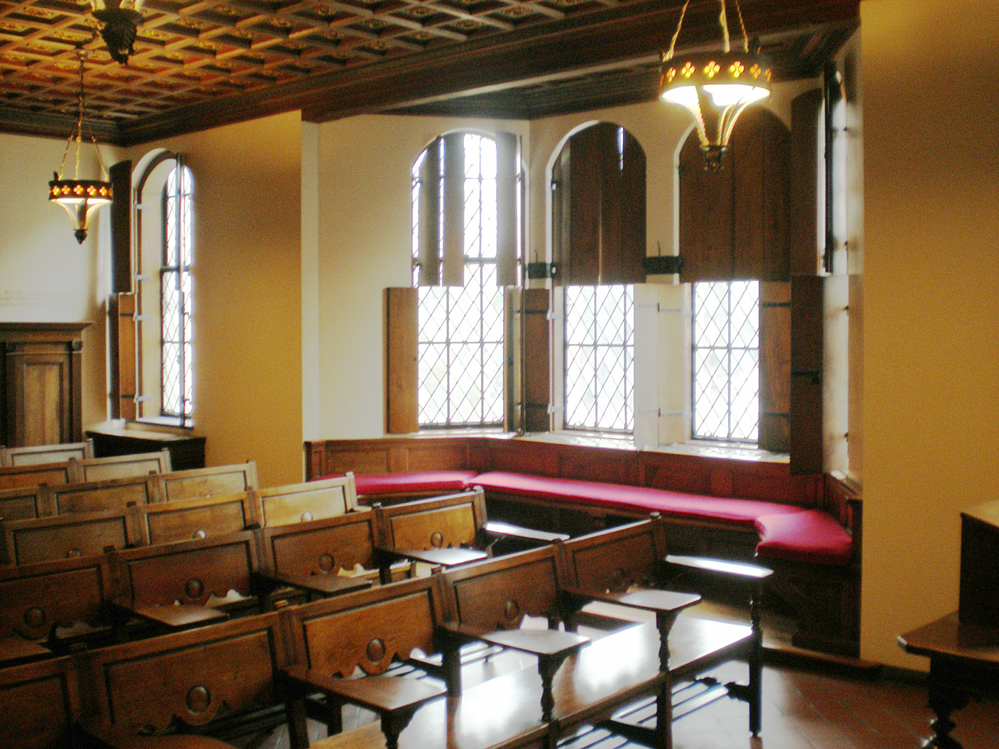 Italian Nationality Room in the Cathedral of Learning at the University of Pittsburgh